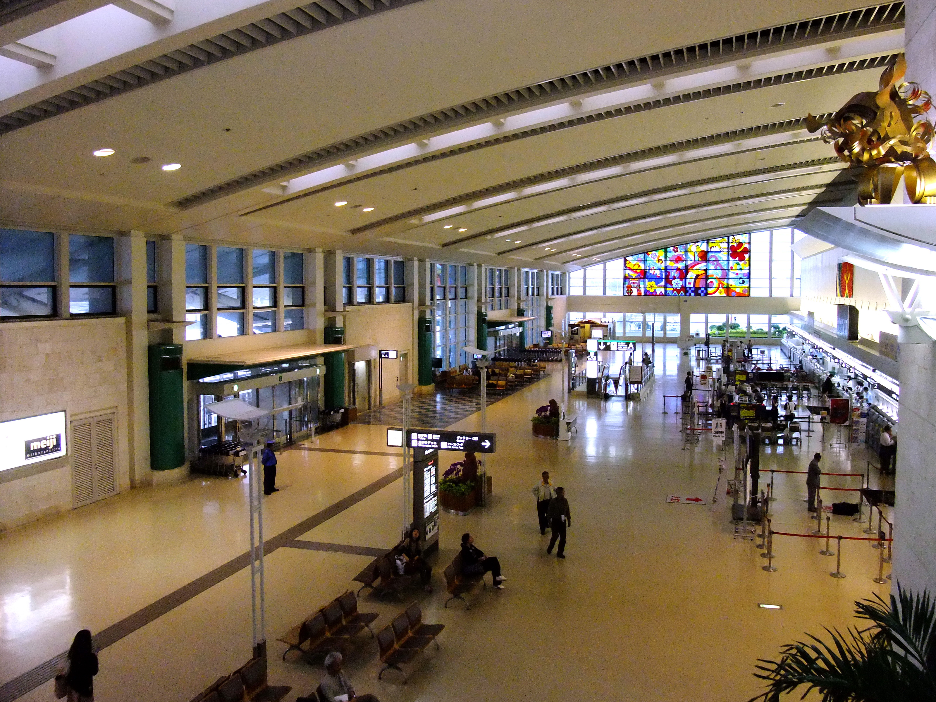 Naha Airport, Domestic Terminal, Departure Floor.